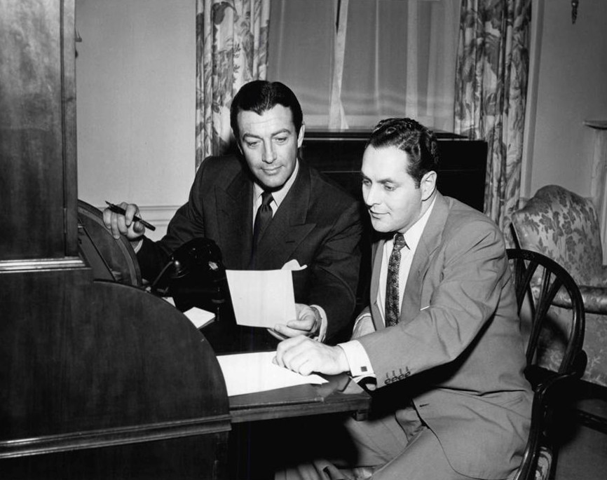 Photo of Robert Taylor and Dan Seymour from the television and radio progam We, the People.